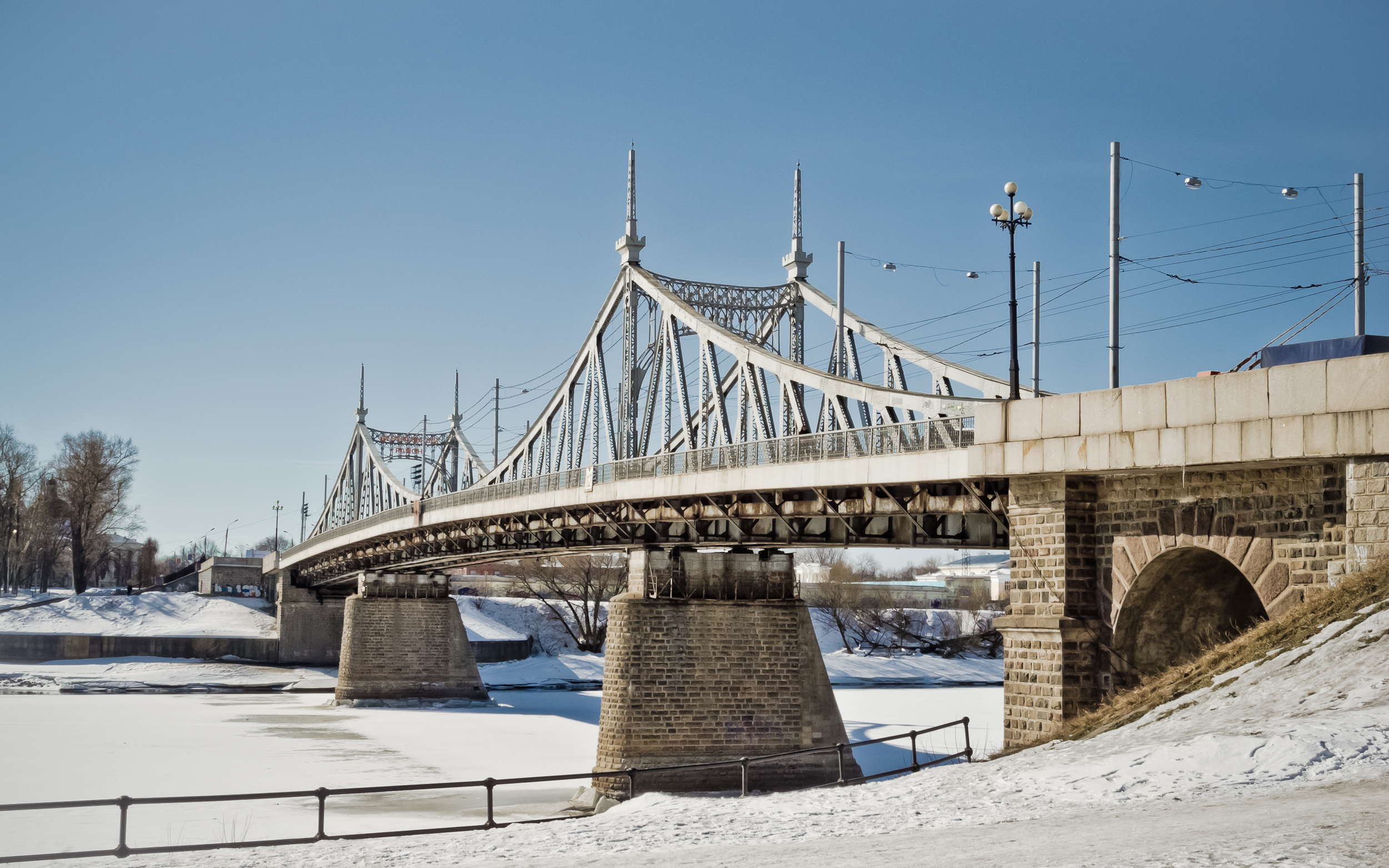 Starovolzhsky Bridge in Tver, Russia